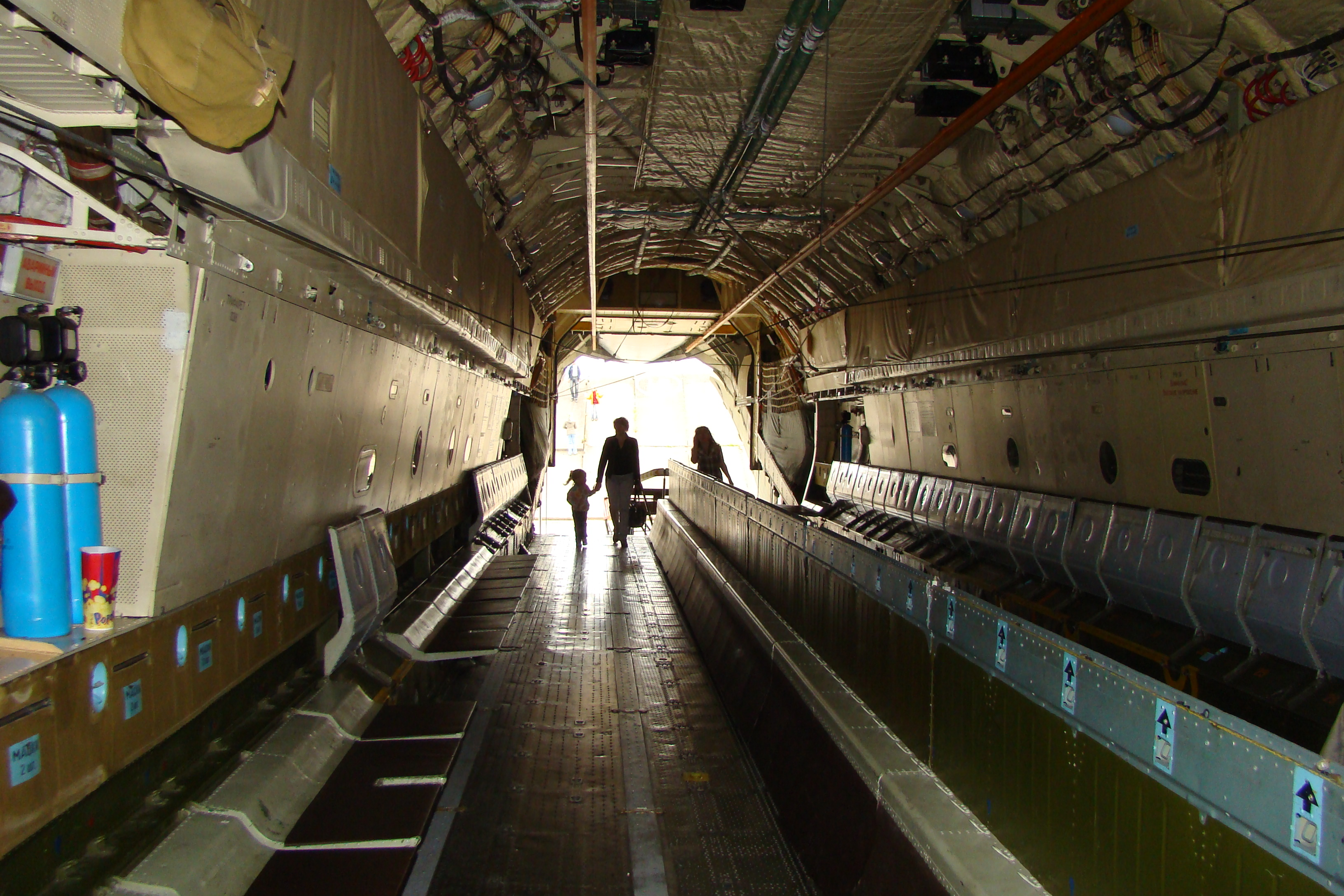 In Ilyushin Il-76MD